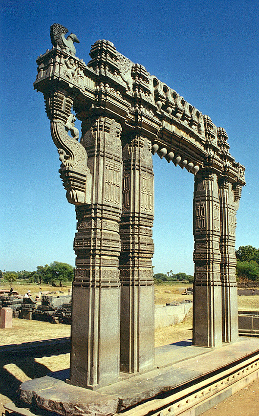 The Warangal Fort was a huge construction with three distinct circular strongholds surrounded by a moat. Four paths with decorative gateways, set according to the cardinal points, lead to the center where a huge Shiva Temple once existed. The gateway is still obviuous but much of the temple is in ruins. Built by King Ganapathi in 13th century and completed by his daughter Rudrama, Warangal Fort showcases the pride and power of the famous Telugu dynasty, the Kakatiyas,in 1261 A.D. Santosh Korthiwada